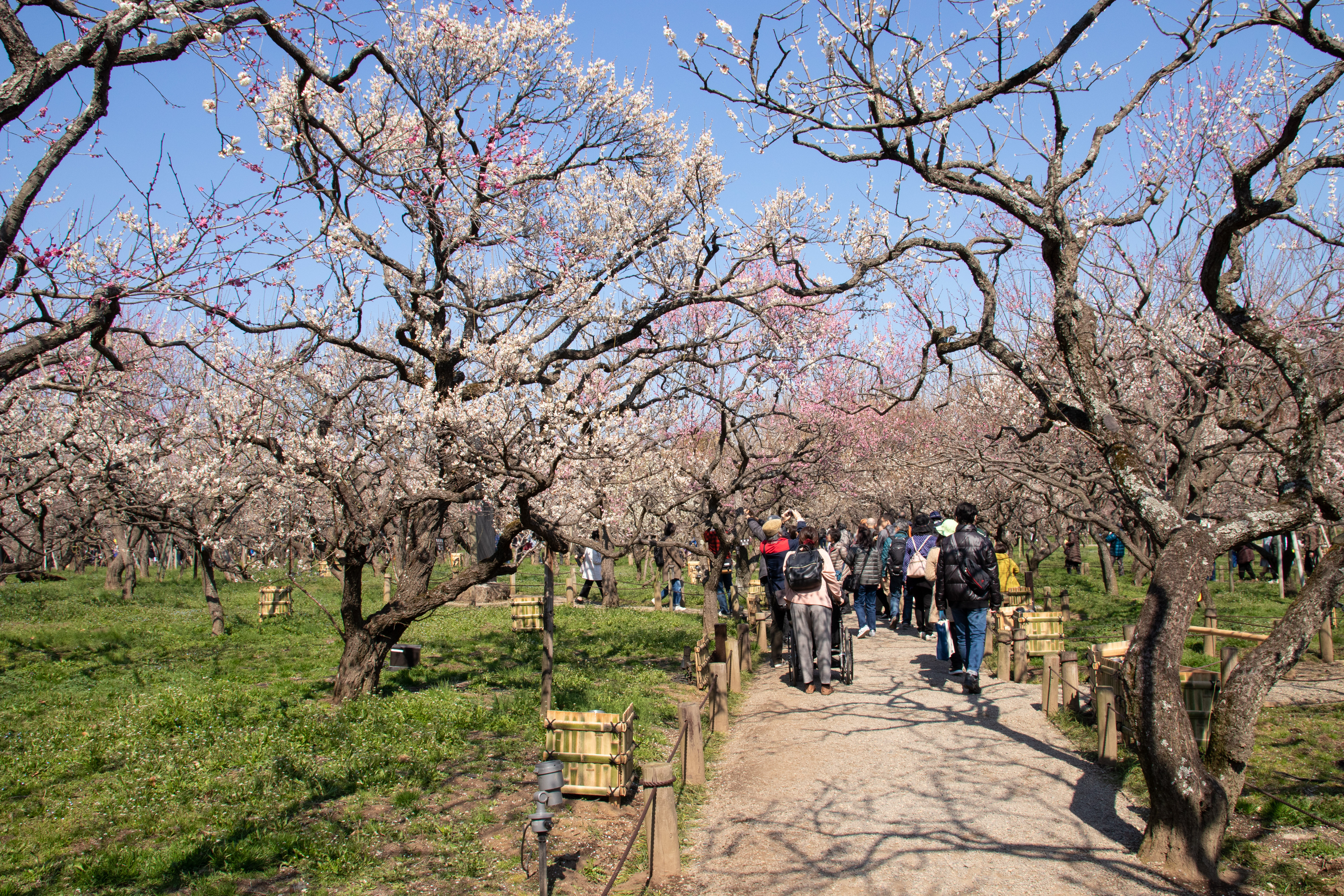 Mito-no-ume Matsuri Festival in Kairaku-en, Mito City, Ibaraki Pref., Japan